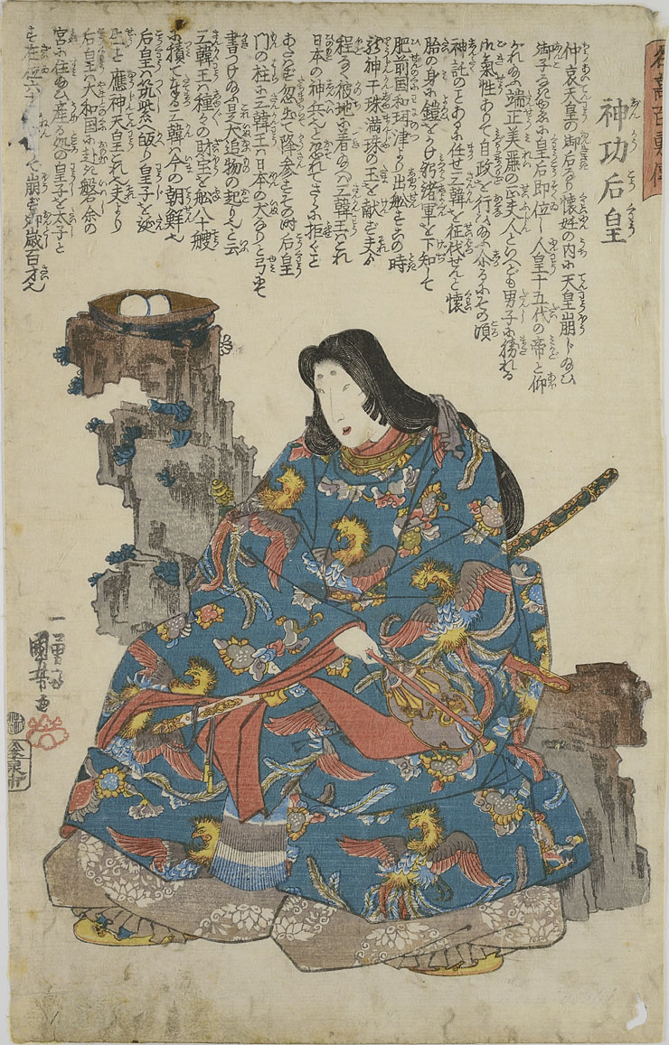 Empress Jingū. From the serie: Stories of one hundred famous heroes